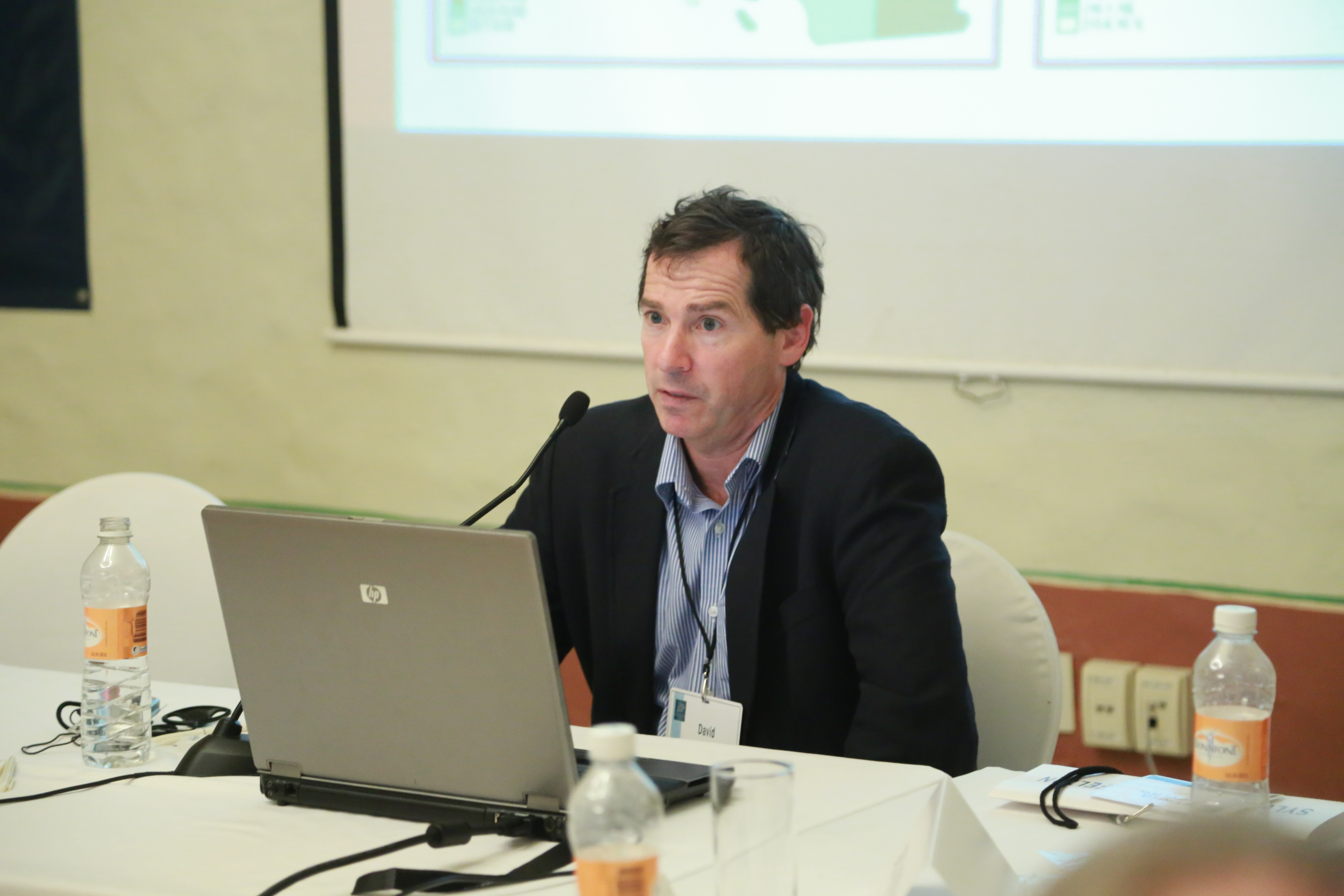 Mazatlan Forum 2015